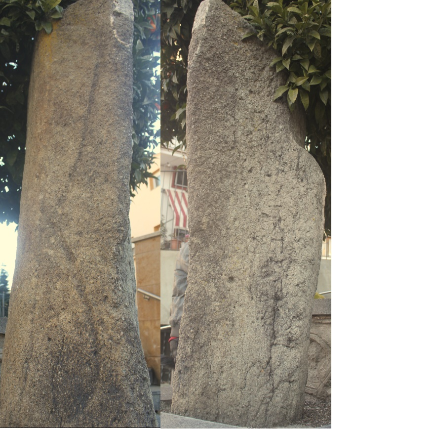 Menhir Castellruf